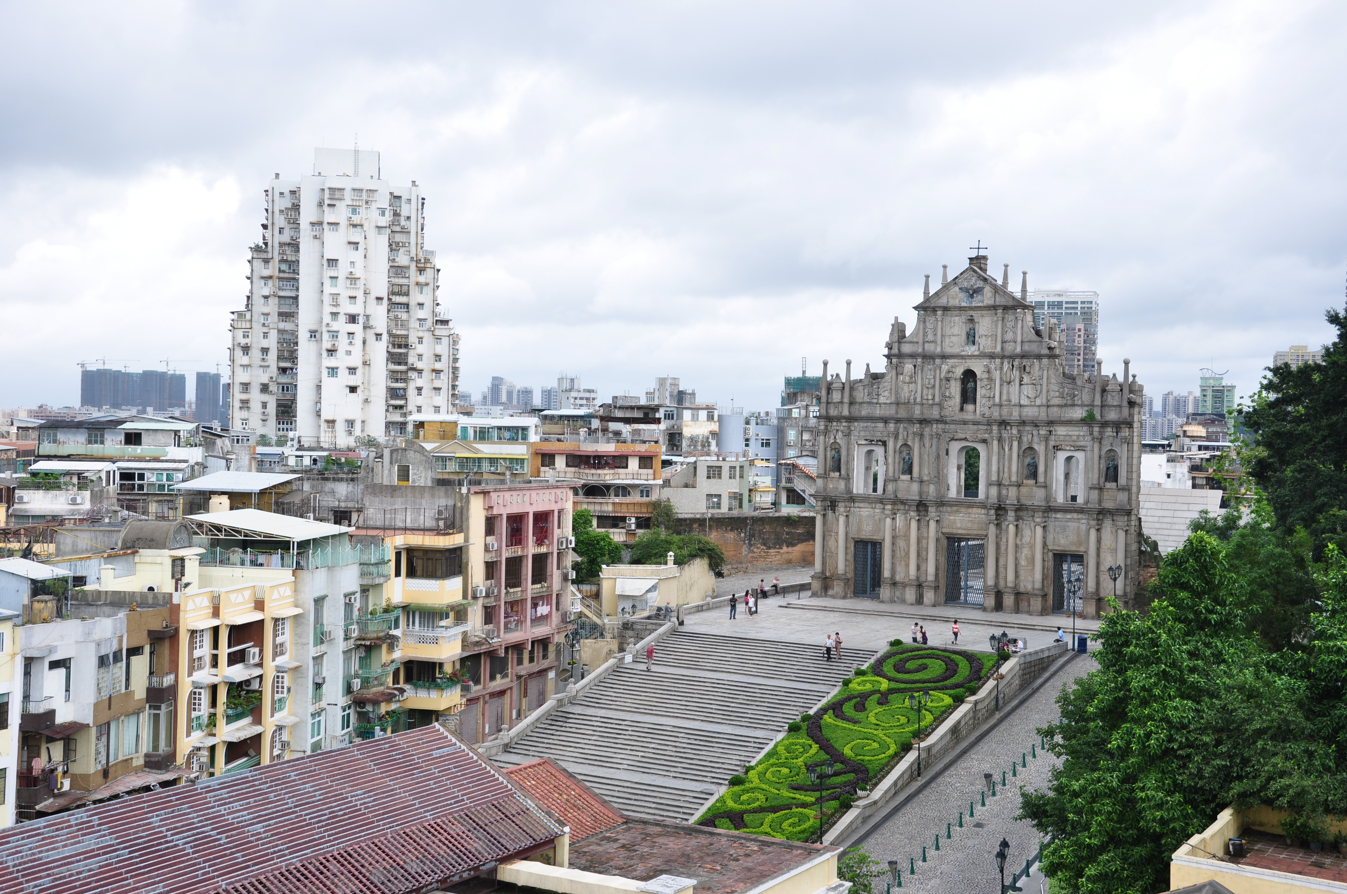 St Paul's Ruins, Macao